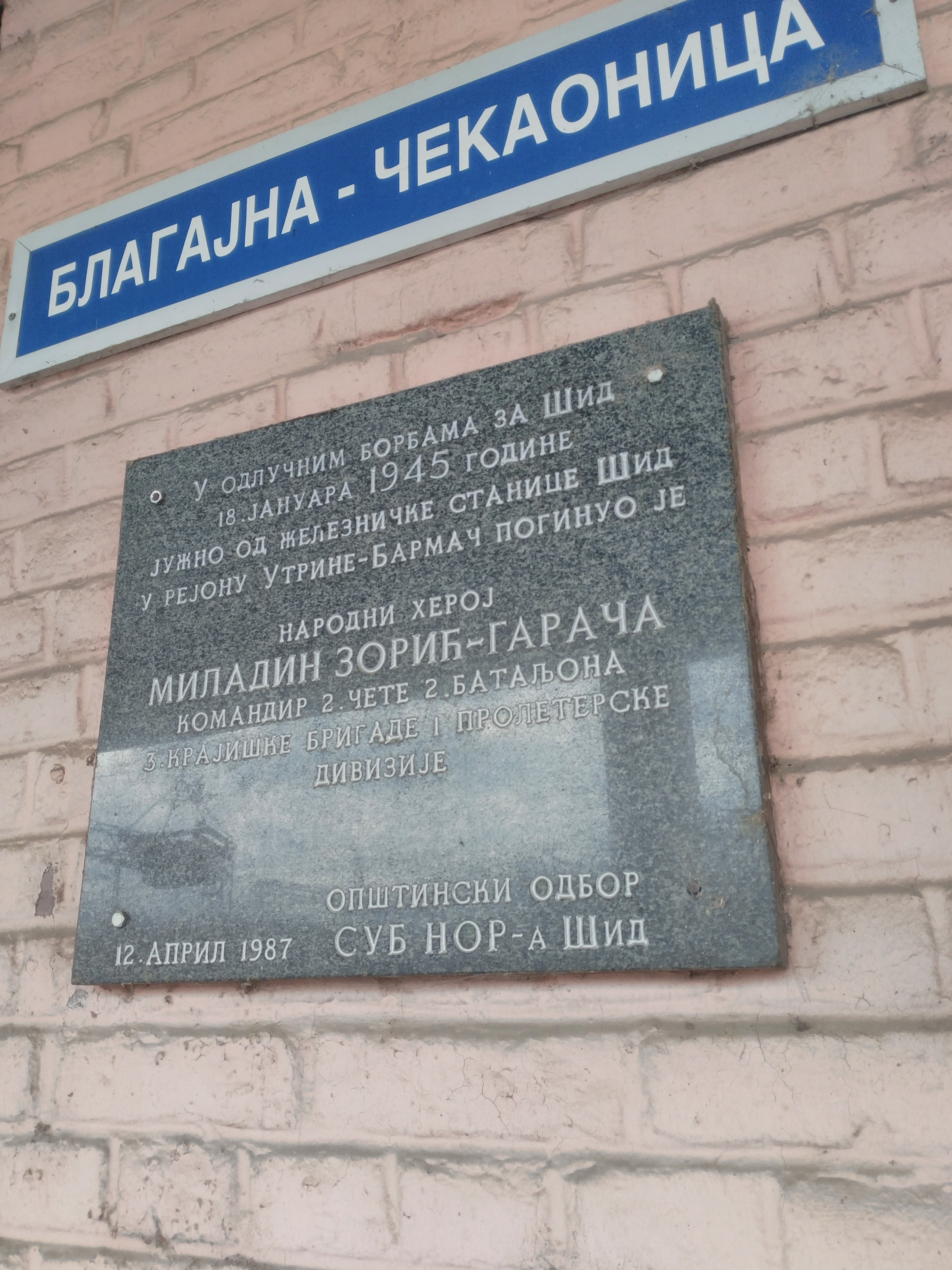 Miladin Zorić-Garača Memorial at the Train Station Šid